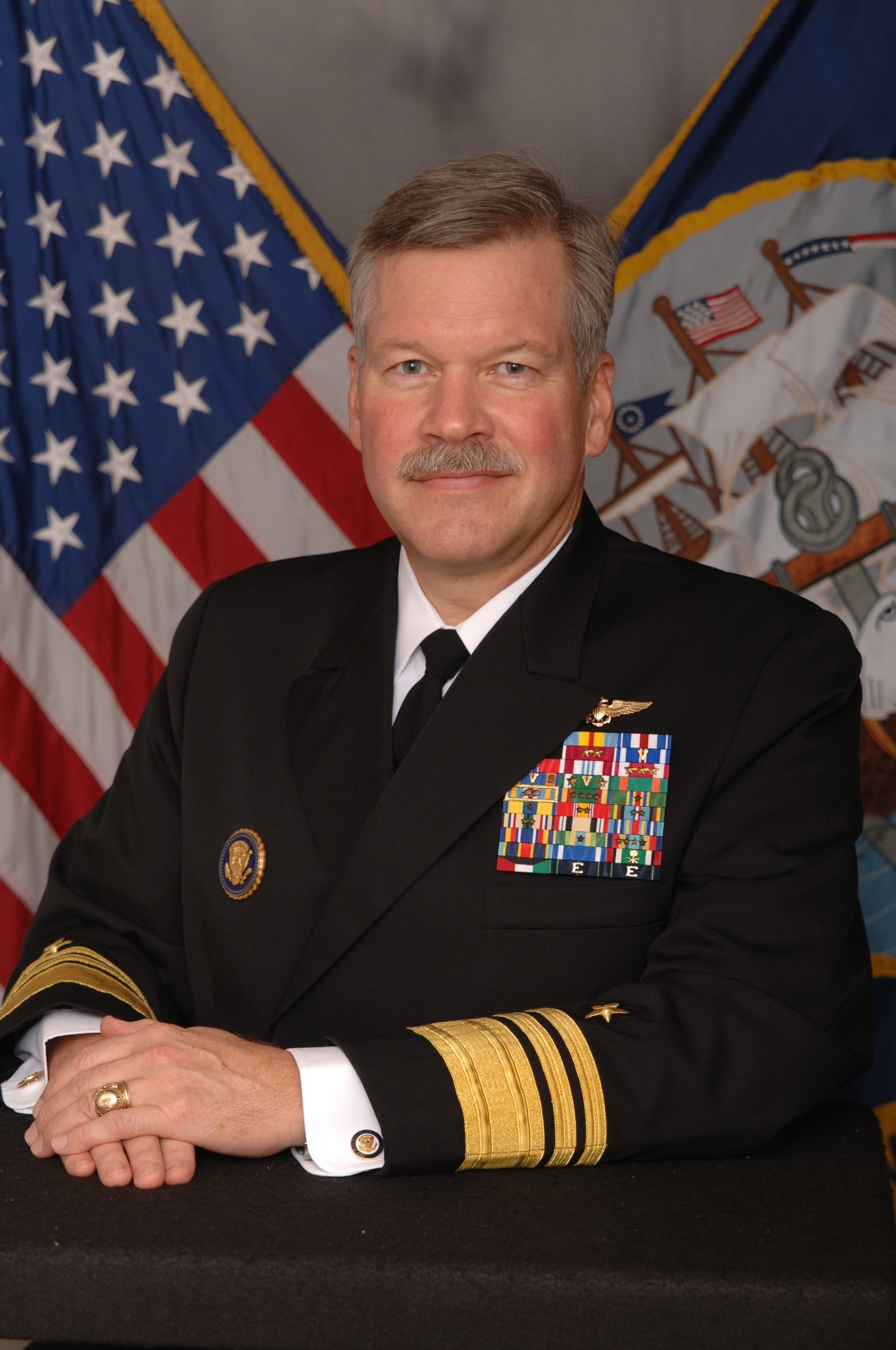 Official photo of United States Navy Vice Admiral Mark I. Fox